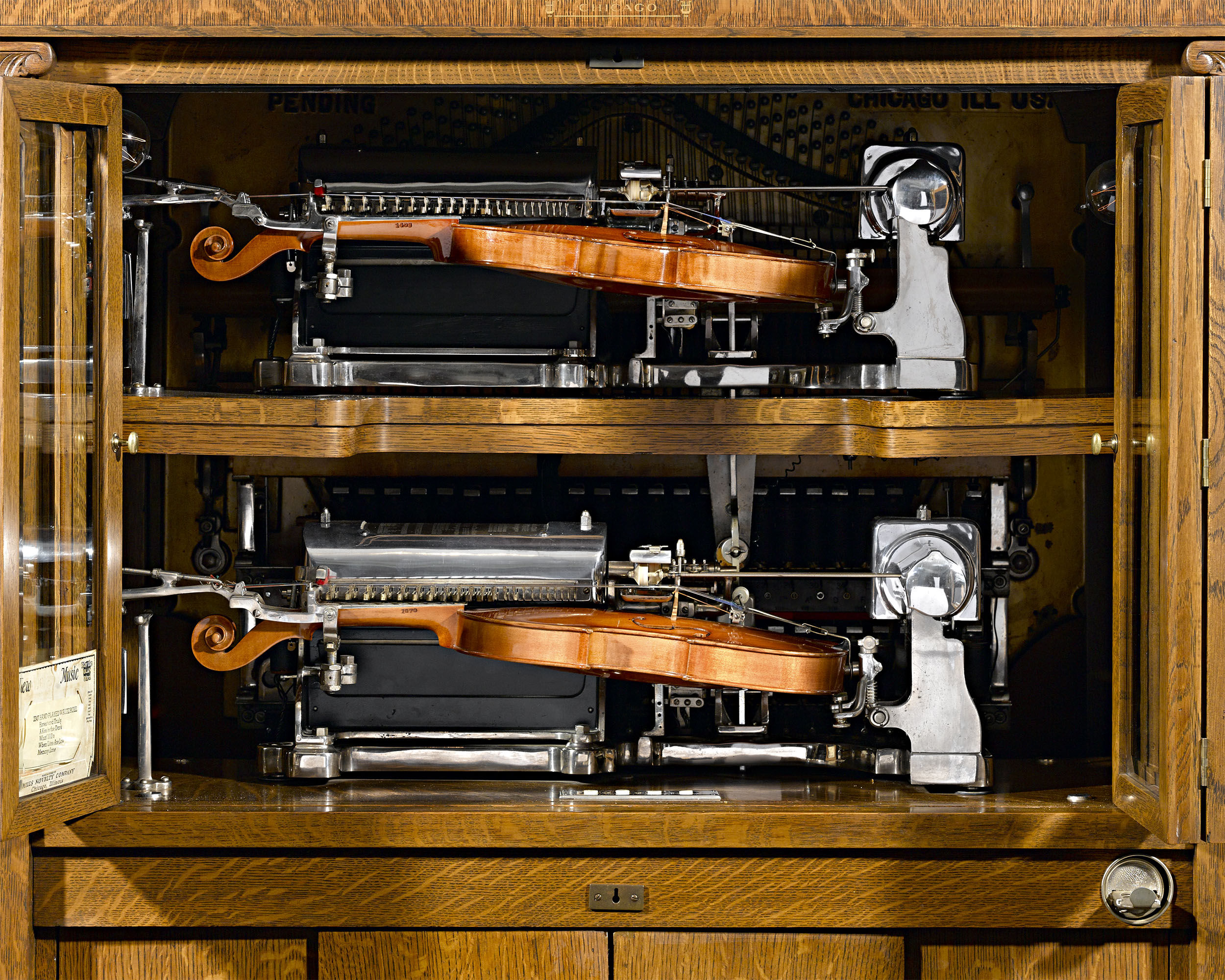 The machine has two independently playing 64-note violins and a 44-note piano